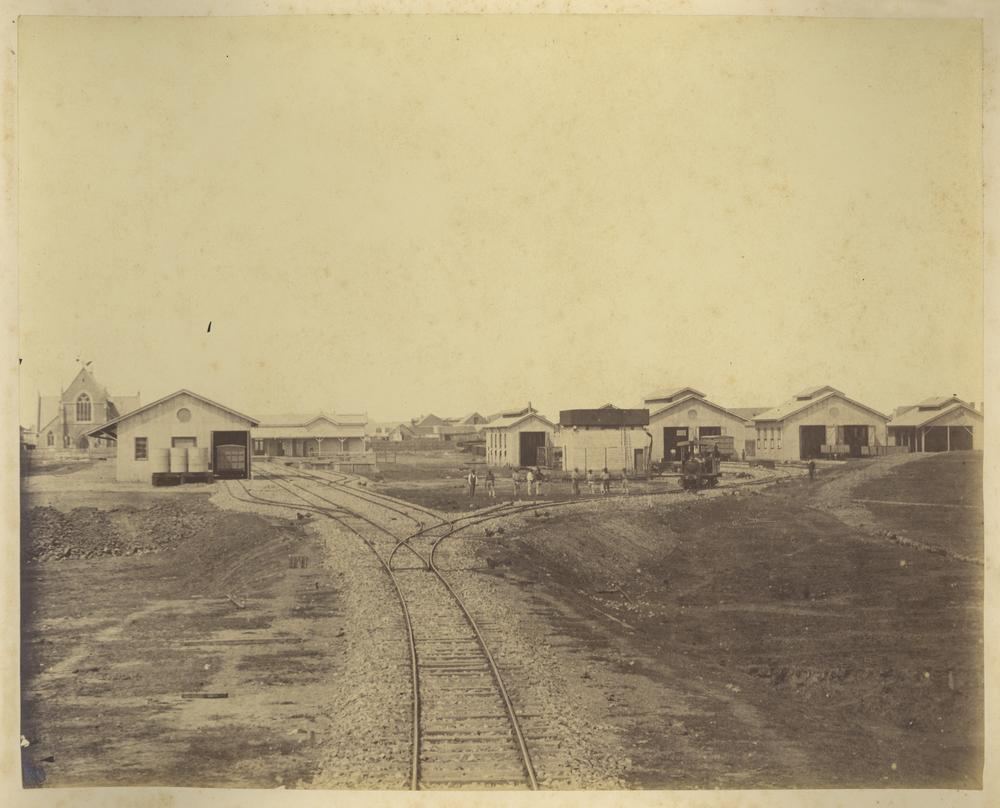 Maryborough Station Yard, 1882. View of the shunting yards and railway sheds on the outskirts of Maryborough. One of Maryborough's churches can be seen on the left hand side of the photograph.